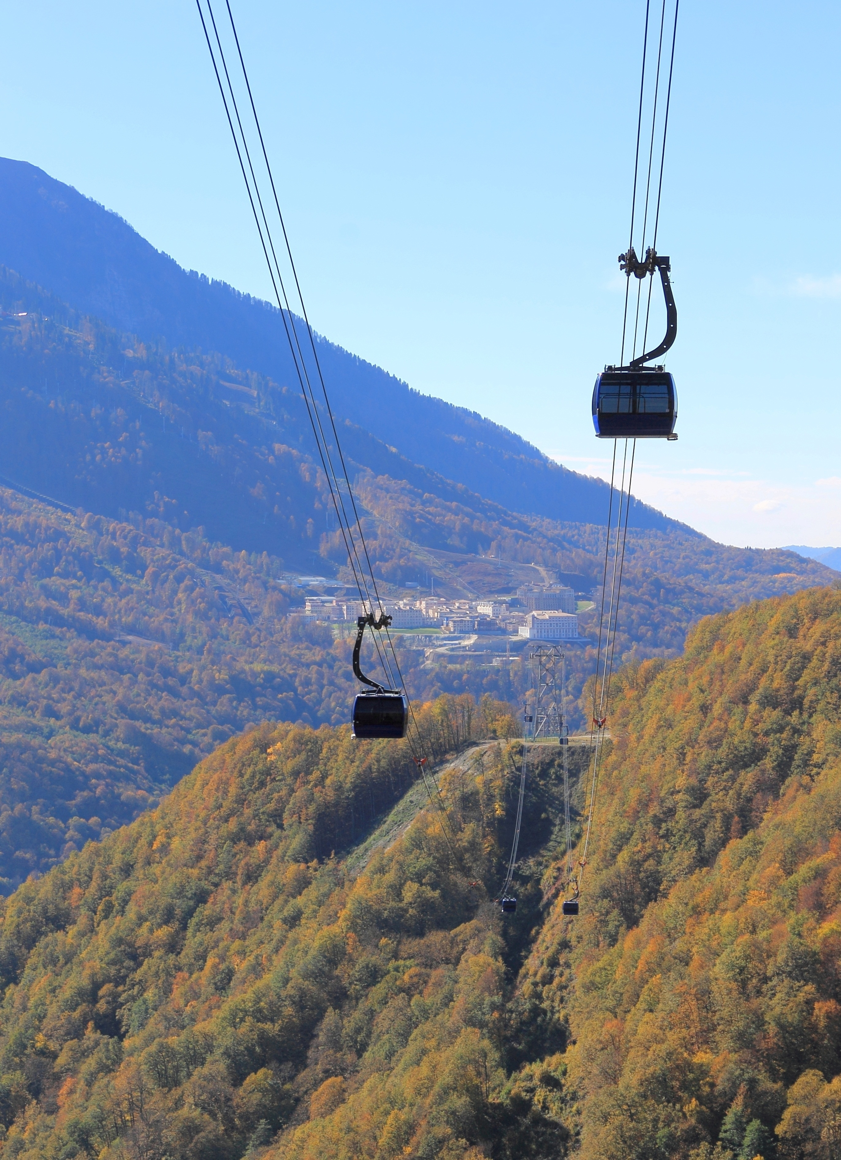 3S Cableway in Krasnaya Polyana, Sochi. 3S aerial cableway takes tourists up the Psekhako Ridge to the Biathlon and Ski Complex located at the height of 1,600 meters. This is one of the world’s longest cableways of a kind – its length exceeds 5,300 meters, its capacity is 3,000 people per hour, the cable car can carry up to 30 people at a time.